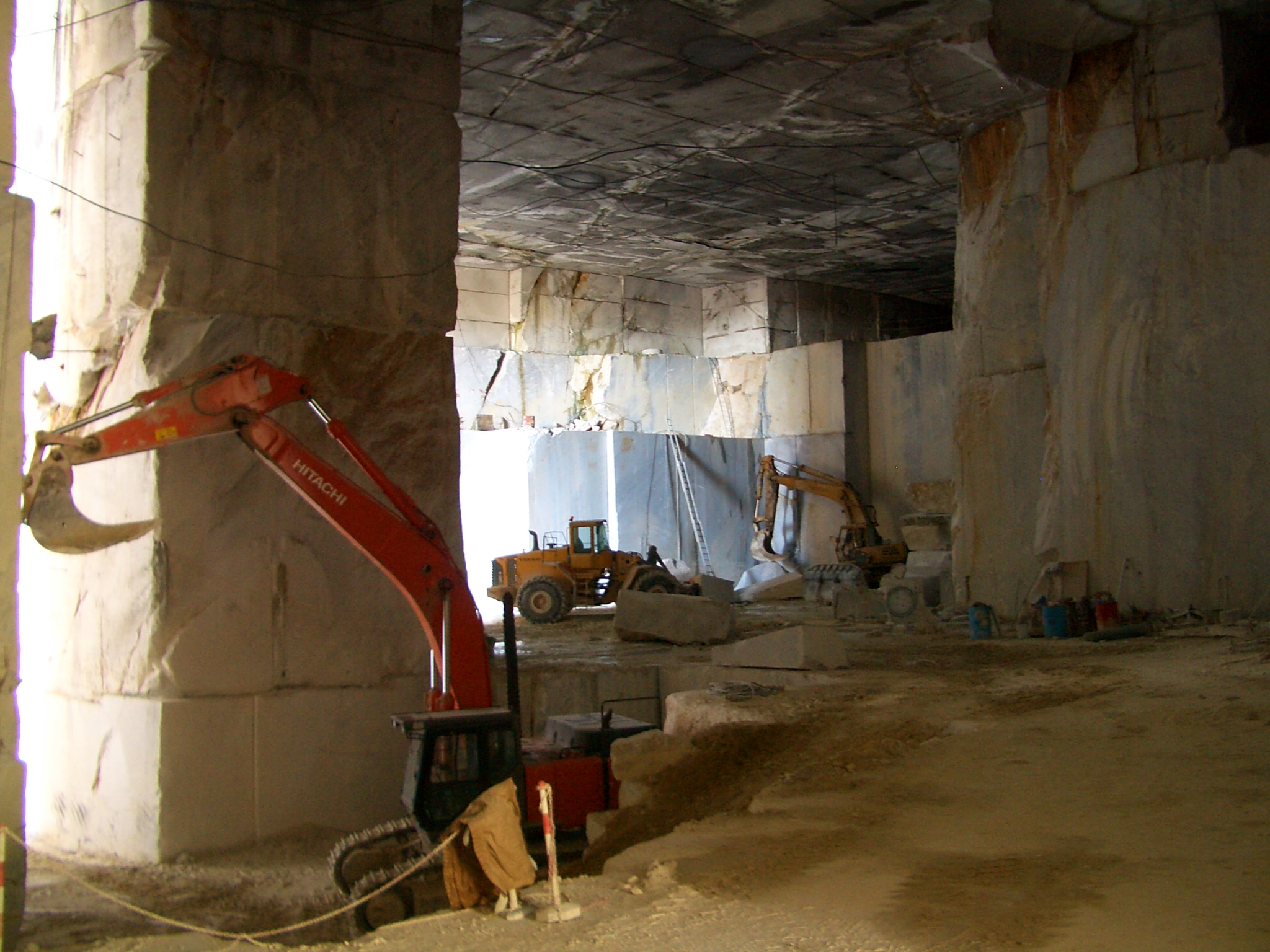 Marble quarries above Carrara, and the road that runs there on the slope of a steep valley, partly in tunnels